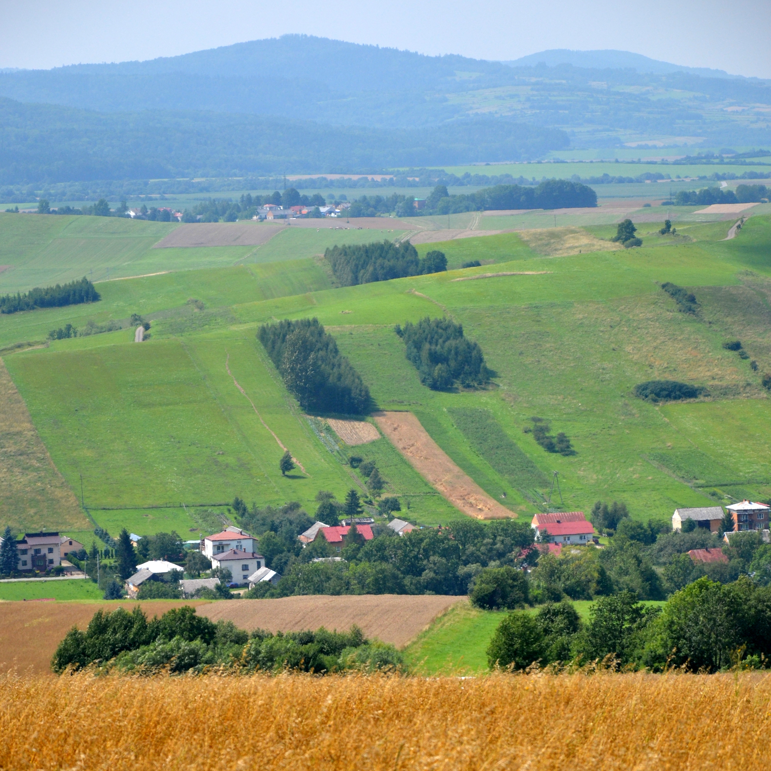 Pielnica-Tal zwischen Nowotaniec und Nadolany (Taldorf), von Bukowica aus gesehen